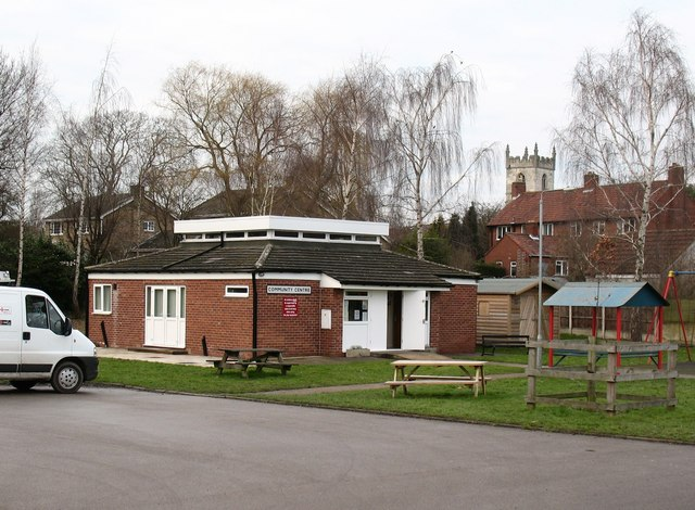 Monk Fryston Community Centre Neat modern building next to the children's swing park.